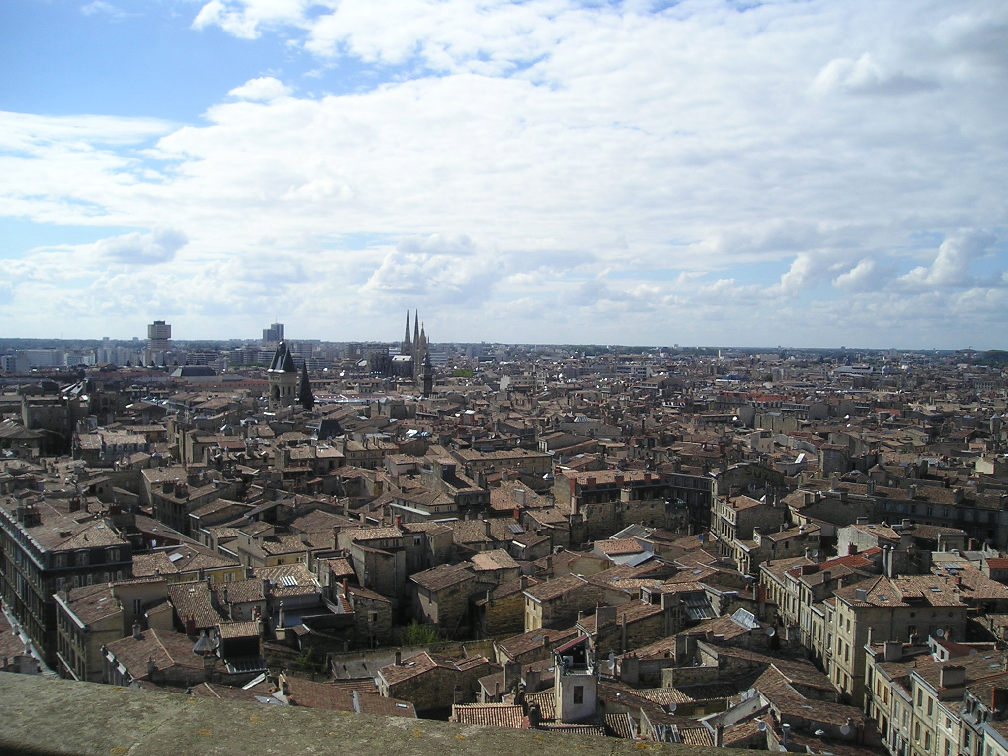 Photo personnelle prise en Juin 2005 Utilisateur Galano Cette photo n'a pas été prise depuis la tour Pey Berland mais de la flèche de l'église Saint Michel Personal photo taken June 2005 User Galano. This photos hasn't been taken from tower Pey Berland but of Saint Michel church's bell tower صورة شخصية التقطها المستخدم جالانو في يونيو 2005. لم تصور من برج بي بيرلاند ولكن من برج كنيسة القديس ميشال